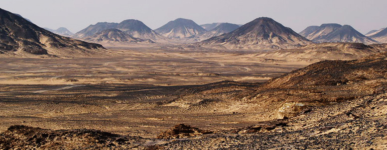 Black Desert (Sahra as-Sauda) between Farafra and Bahariya oasis, Egpyt